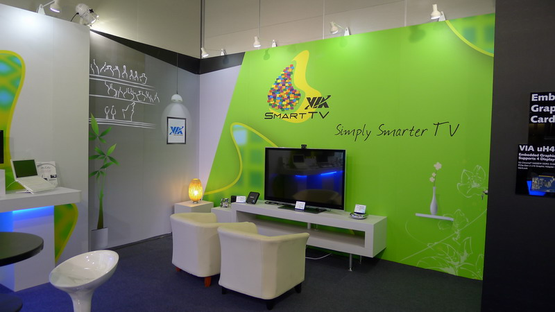 Here is the VIA Smart TV Display in the VIA botth at Computex 2011